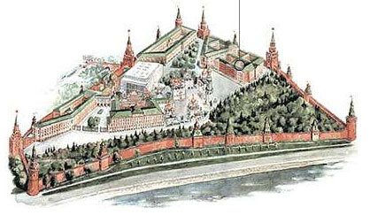 Overview map of the Moscow Kremlin. Location of Building 14 (The Presidium) marked.